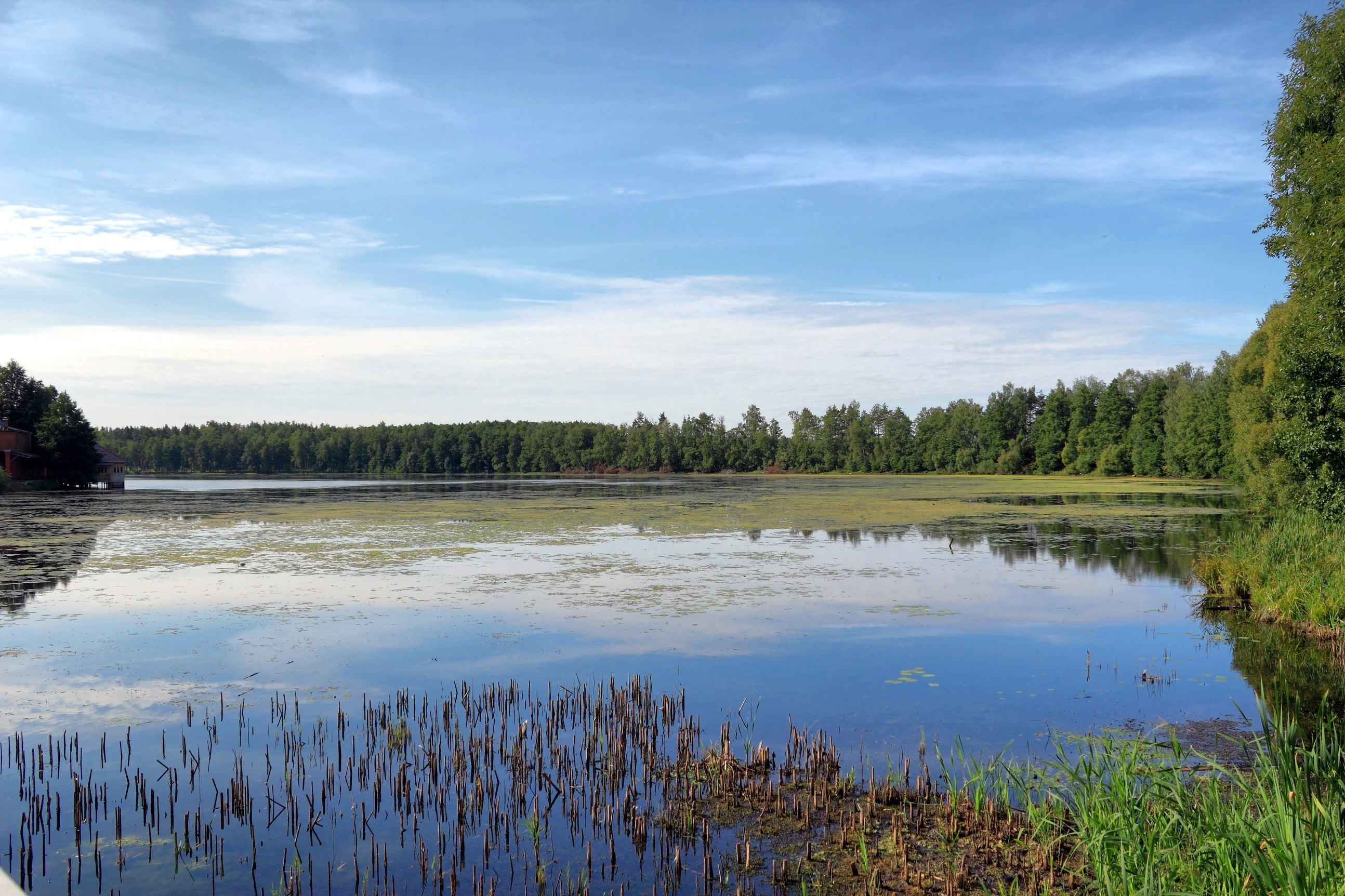 Lake Vvedenskoye